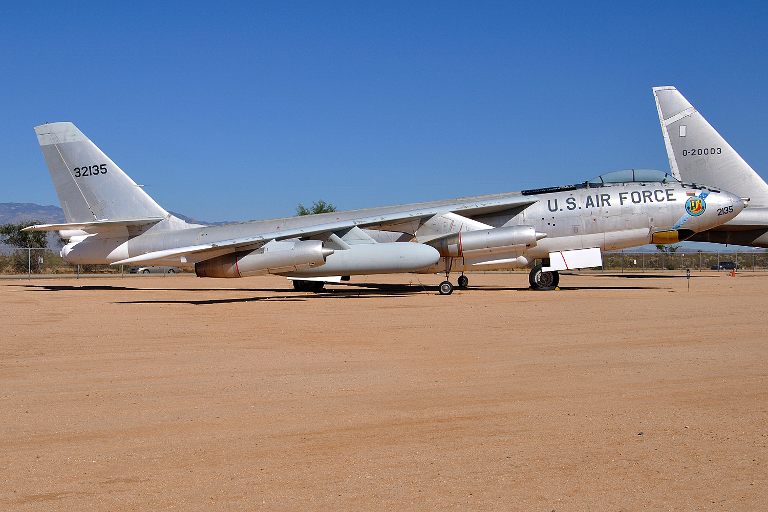 53-2135 Boeing EB-47E Stratojet in markings of the 376th Bombardment Wing